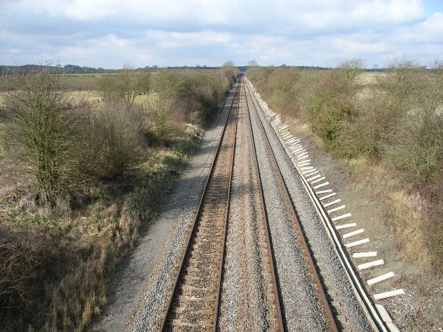 Railway at Dorton. Site of Dorton Halt Railway Station, Bucks